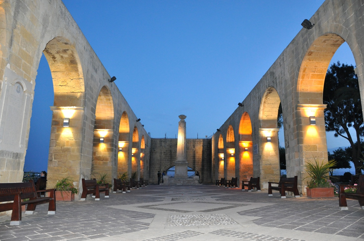 Valletta's most beautiful park, the Upper Barrakka Gardens, created on the bastion of St. Peter and Paul, is the highest and most impressive point of the city walls. The origins of the Upper Barrakka go back to 1661, when in effect it was a 'private' garden of the Italian knights of the Order of St. John, whose inn of residence (auberge) lies close by. It was not before 1824 that it was opened as a public garden. The Upper Barrakka offers a magnificent view over the Grand Harbour and the old towns of Senglea and Birgu, Fort St. Angelo, Fort Ricasoli in Kalkara, at the shipyard as well as the lower-lying parts the capital.